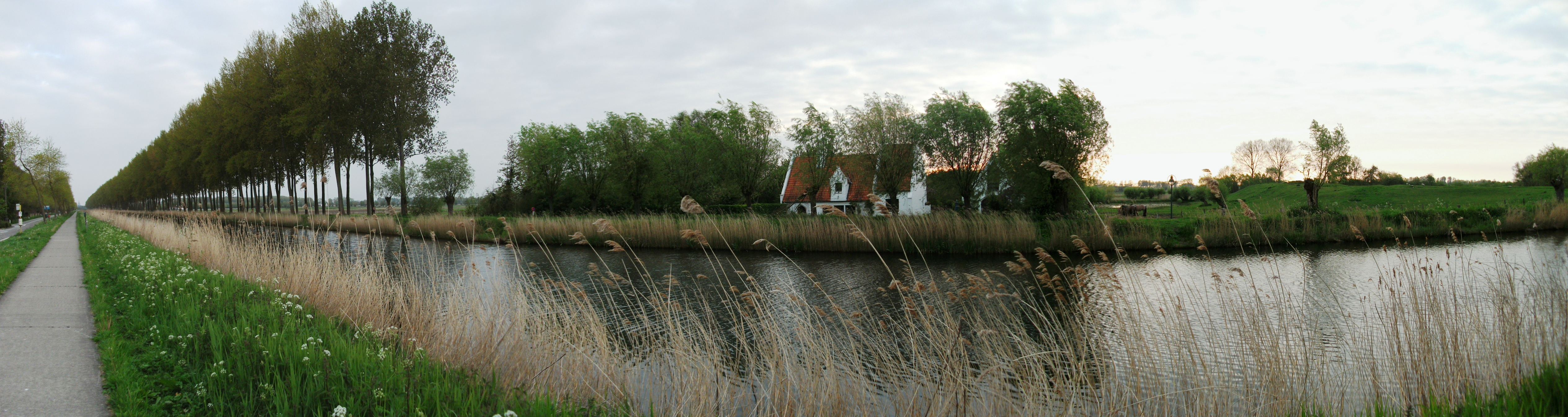 Panoramic photo taken of the Damse Vaart at only 100 meters from the centre of Damme. Taken at sunset.